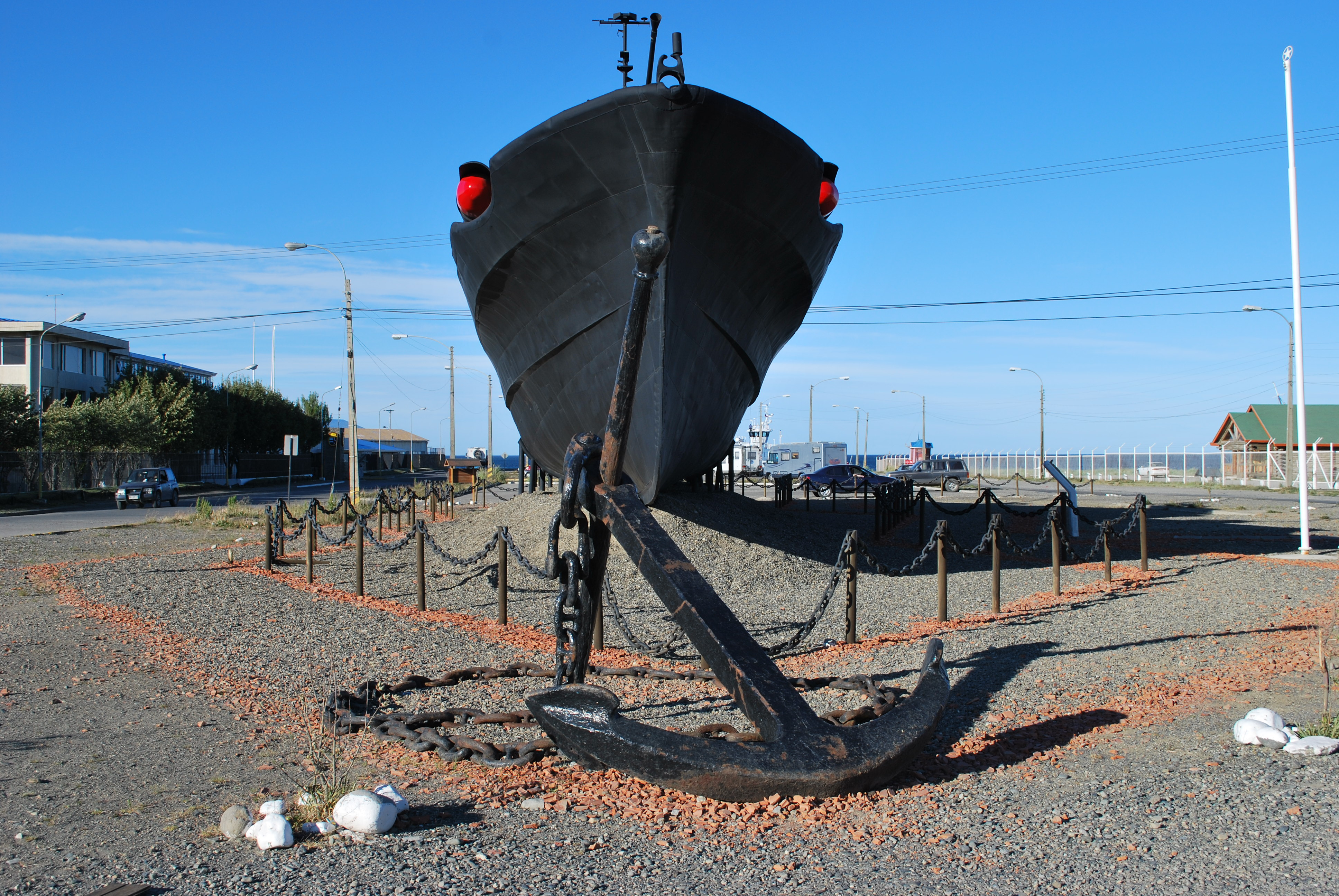 Chilean Torpedoboat Fresia PTF-81 as Museum in Punta Arenas